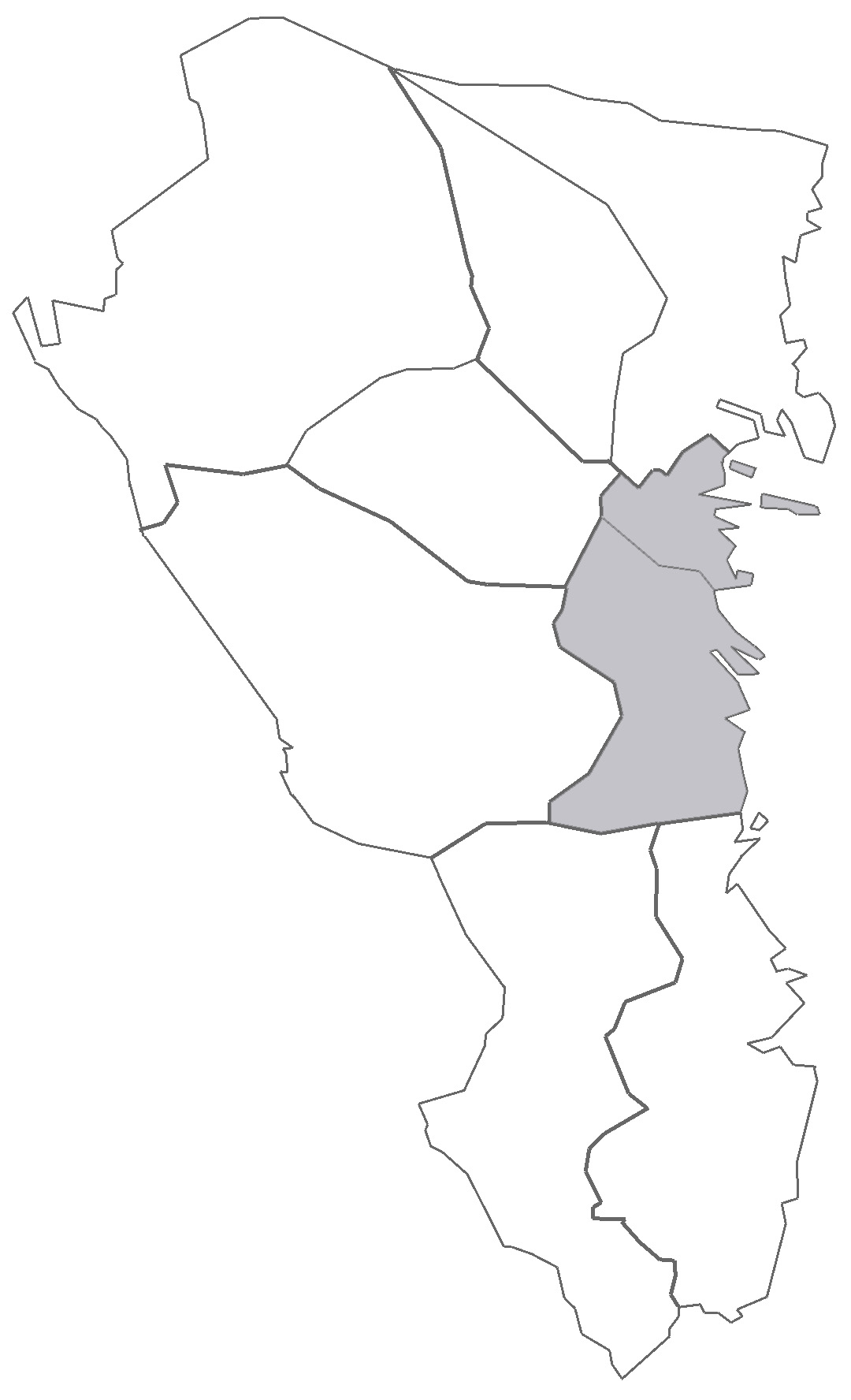 Map describing the location of Hälsingland Southern Court District in Gävleborg County, Sweden.